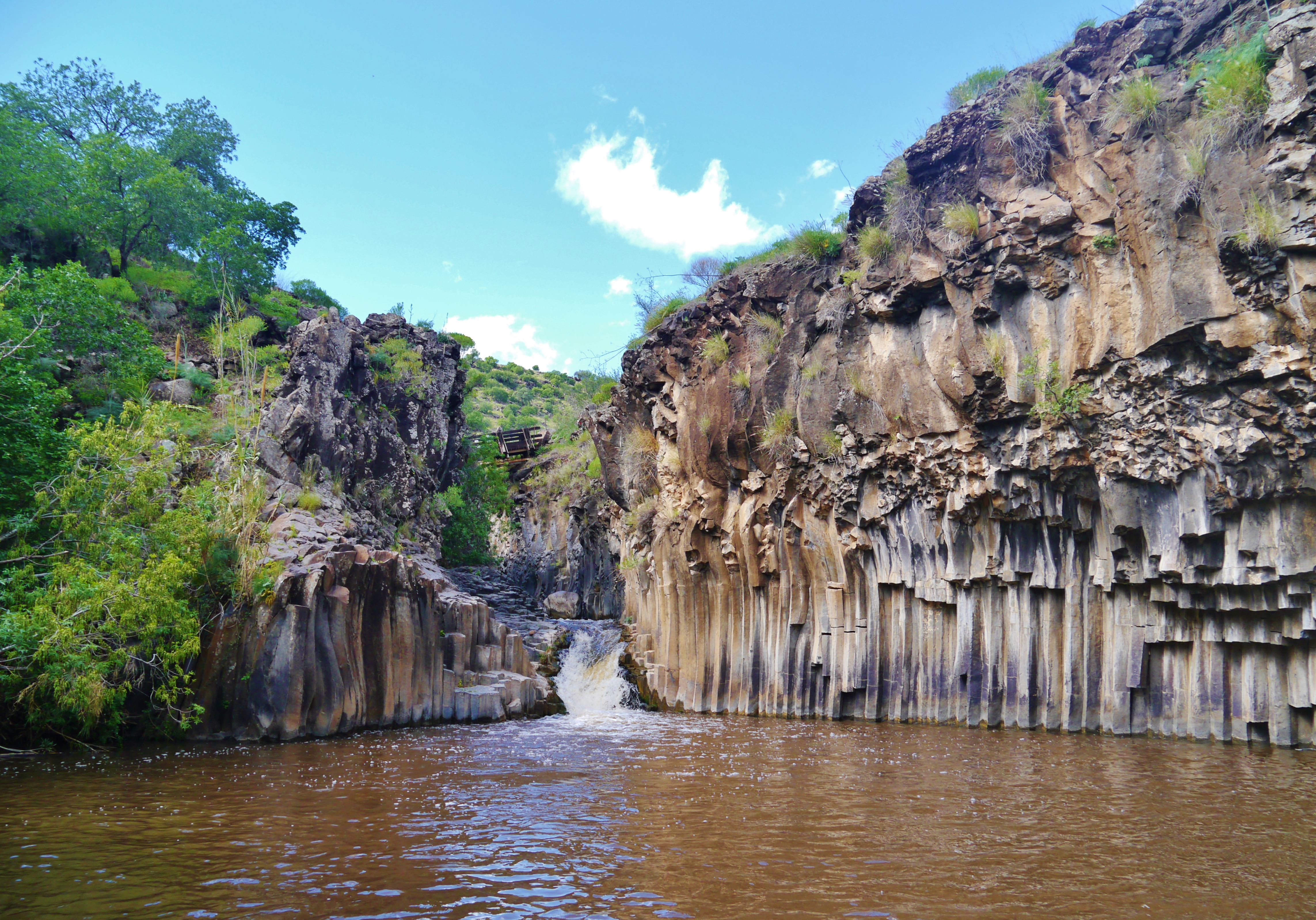 Hexagon Pool on Golan Hights, Israel